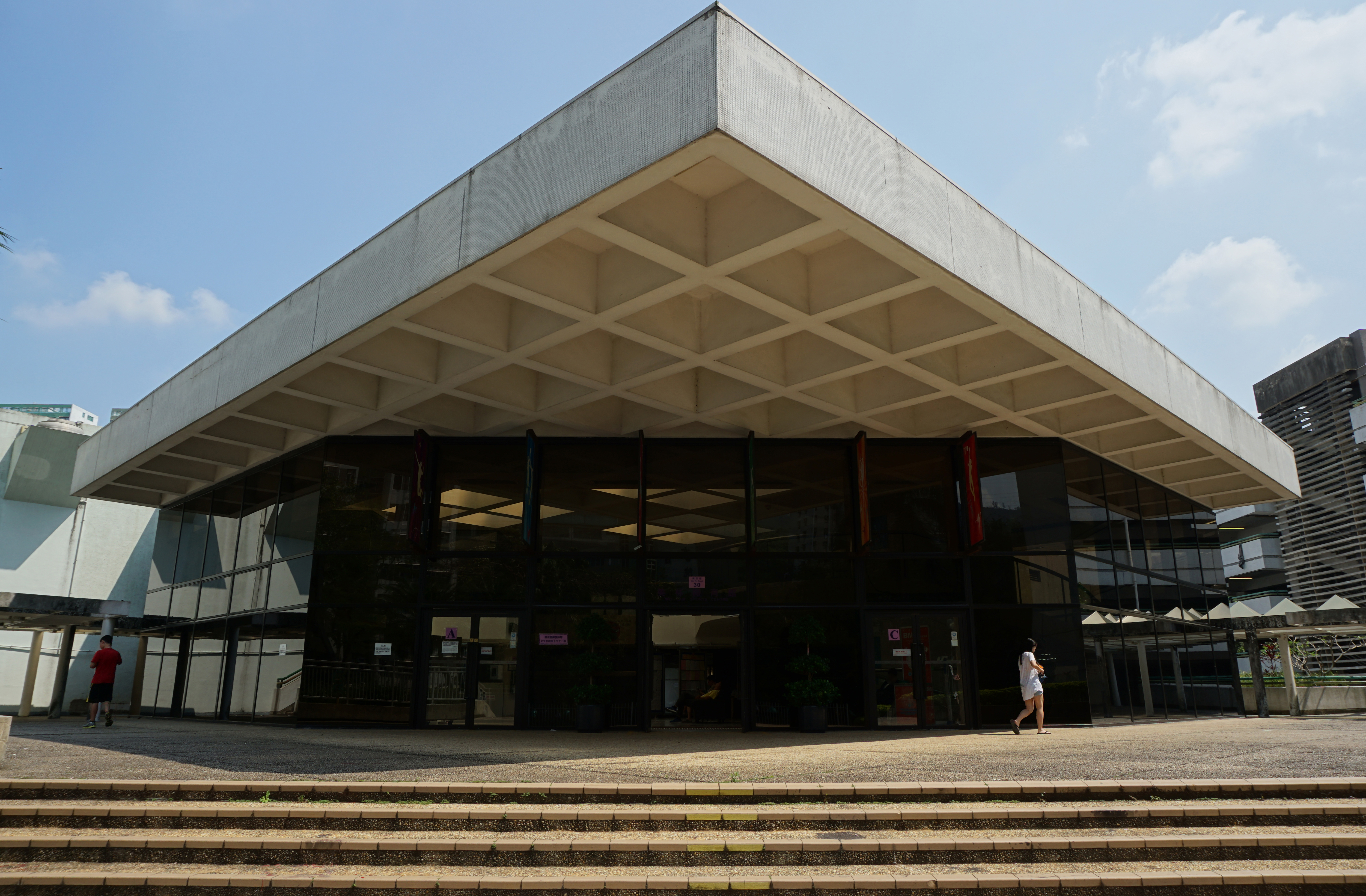 Mei Lam Sports Centre in Tai Wai, Hong Kong.